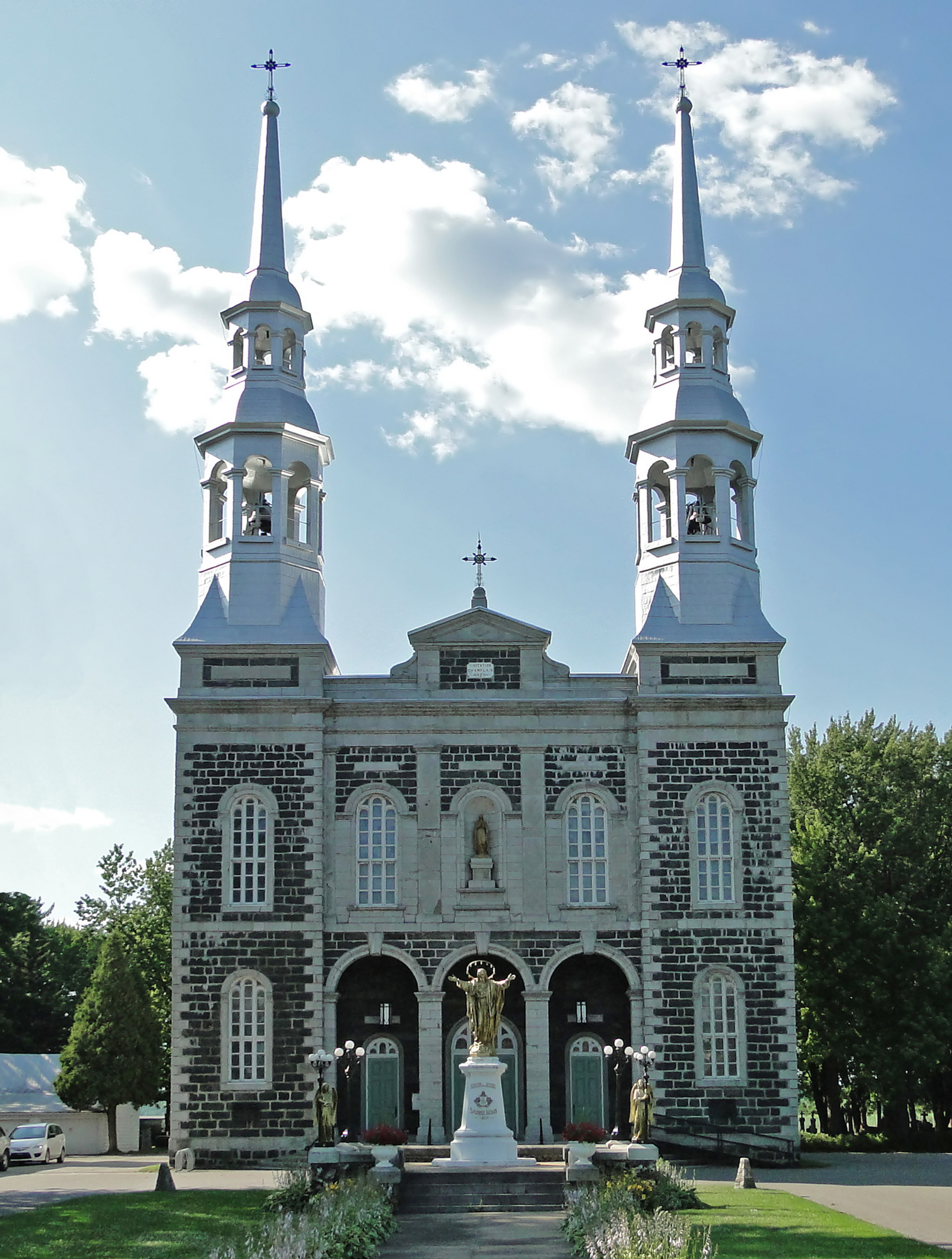 Notre-Dame-de-la-Visitation Church, Champlain, province of Quebec, Canada